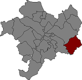 Location of Olesa de Bonesvalls in Alt Penedès